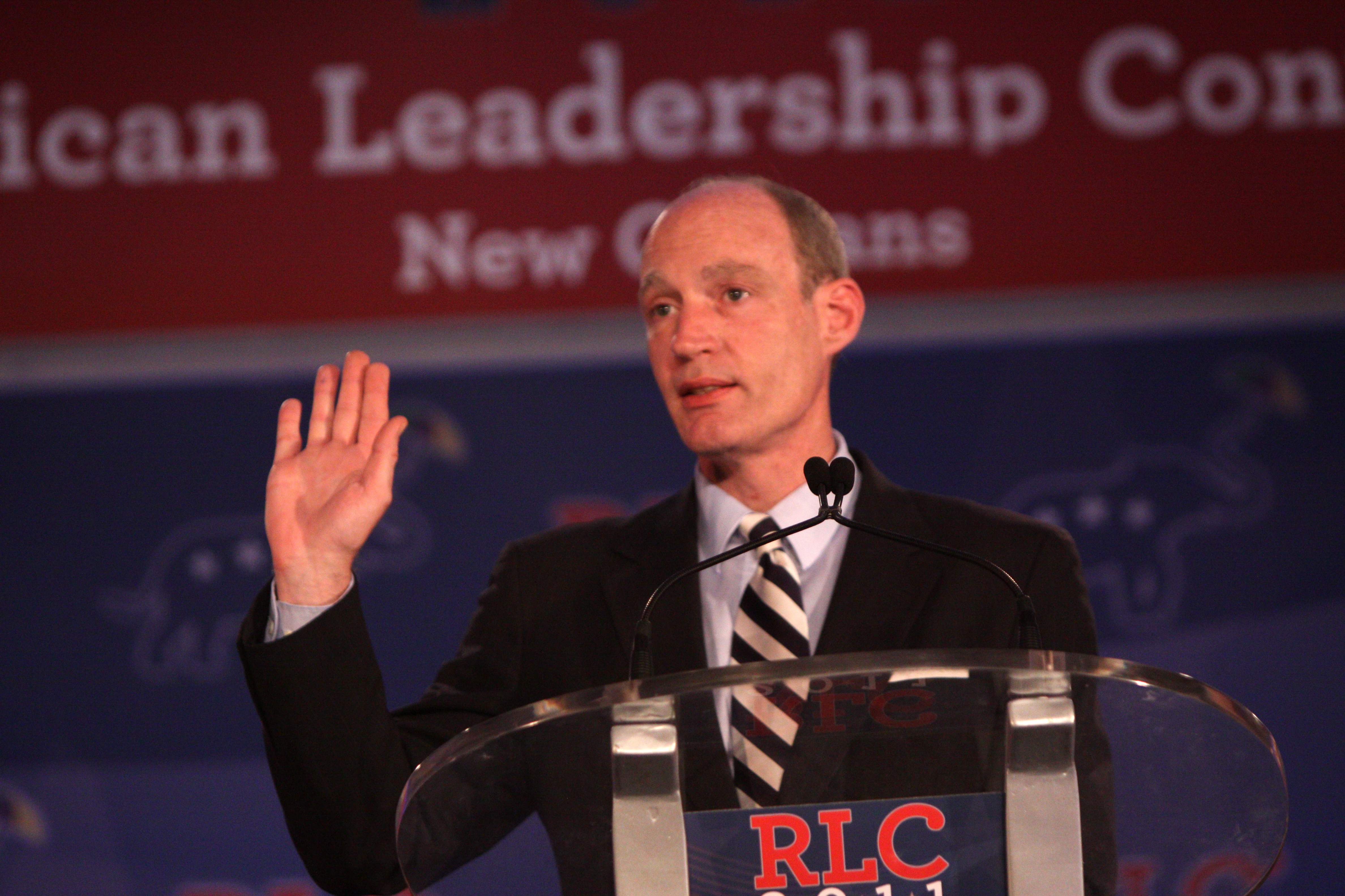 Congressman Thaddeus "Thad" McCotter of Michigan speaking at the Republican Leadership Conference in New Orleans, Louisiana.